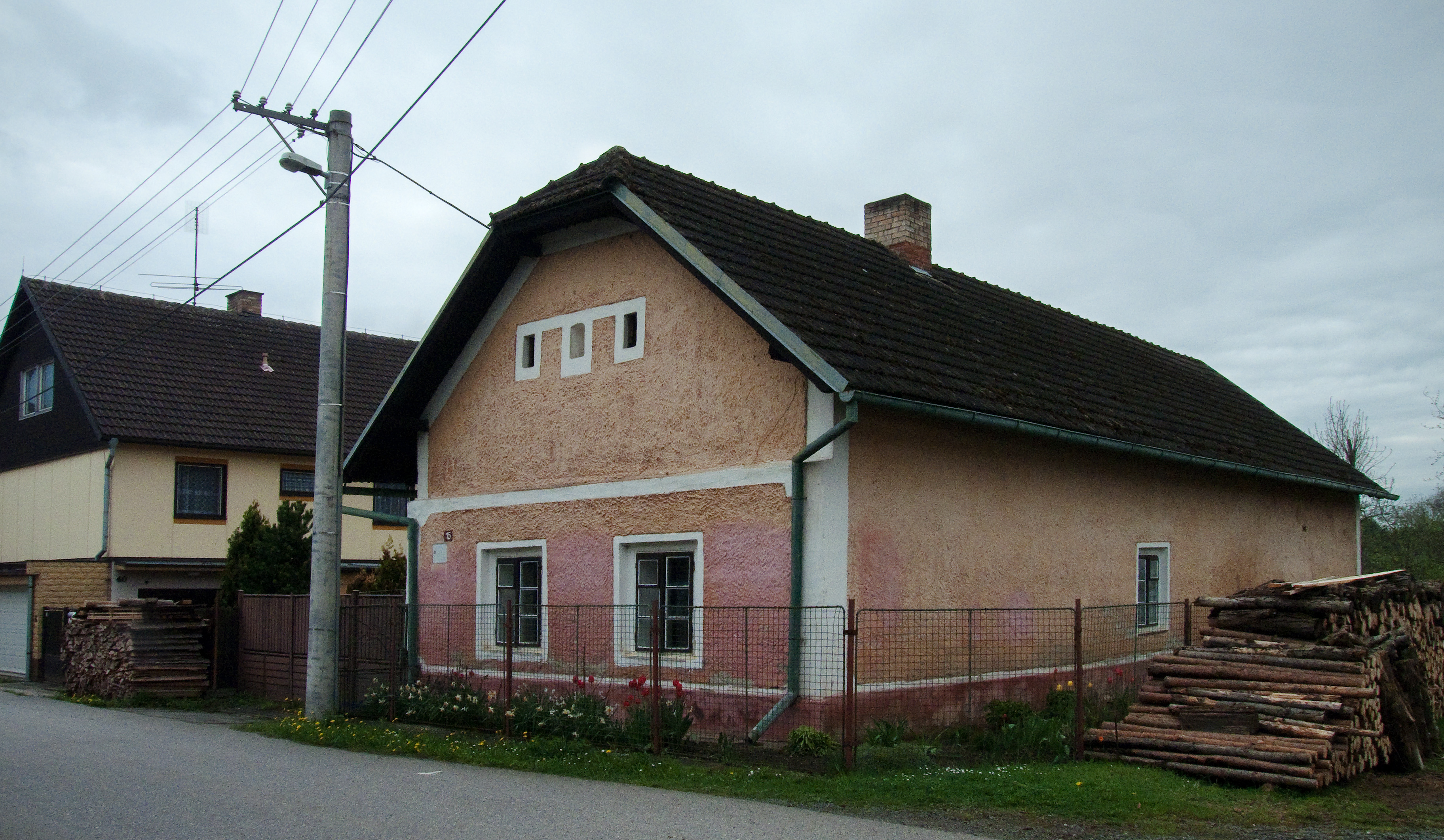 House No 15 in the village of Košín, Tábor district, Czech Republic